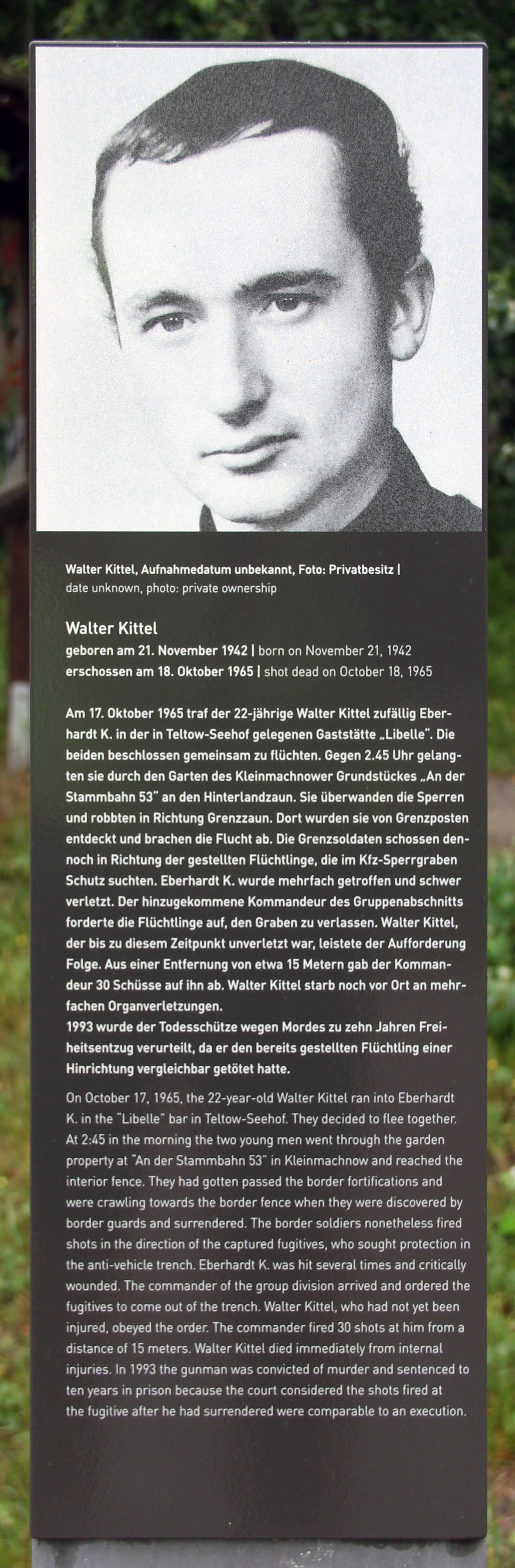 Memorial plaque, Walter Kittel, Berlepschstraße, Berlin-Zehlendorf/Karl-Marx-Straße, Kleinmachnow, Germany